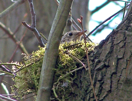 Nest of the mistle thrush